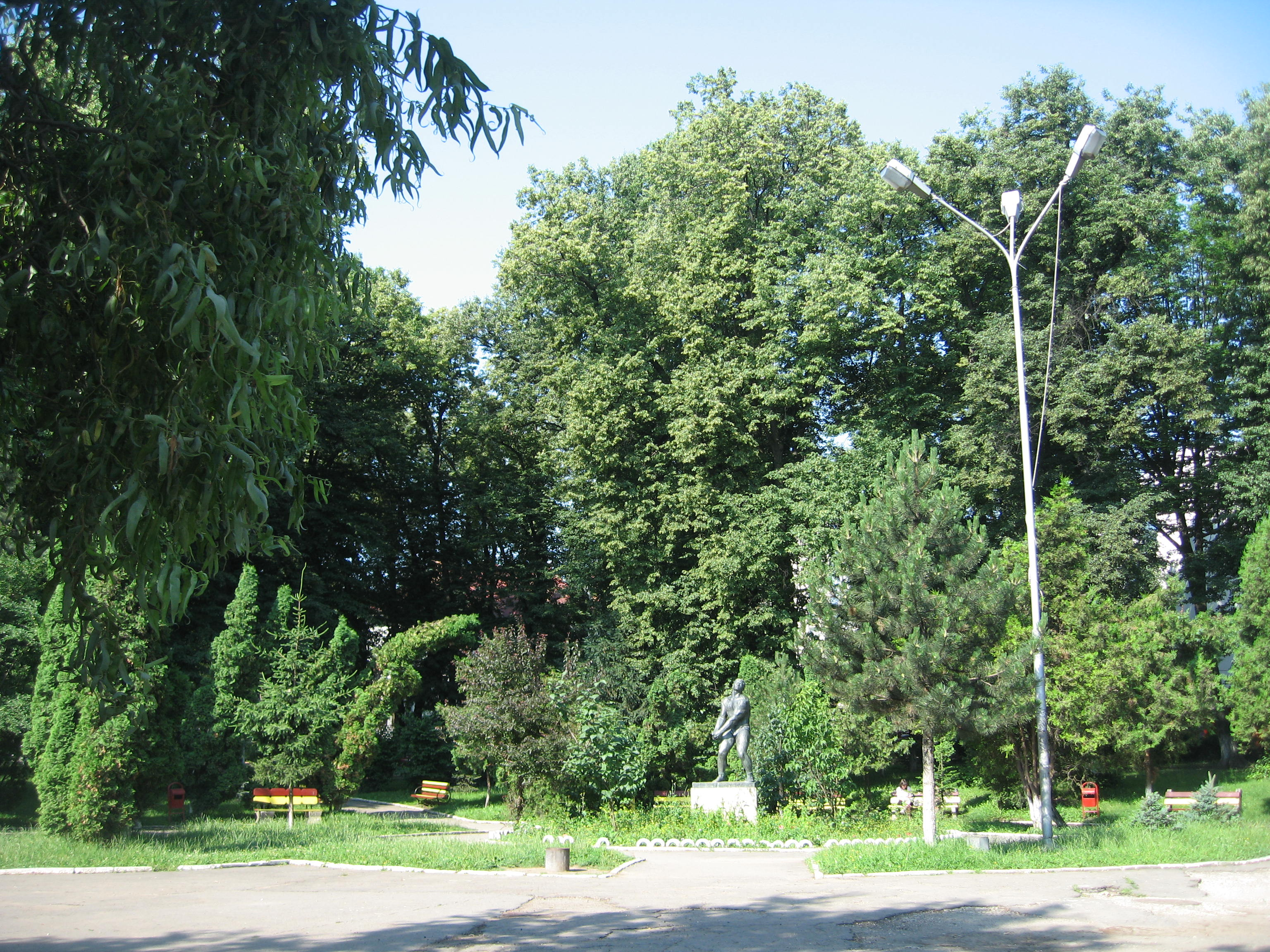 Statue of the Hammer Thrower in Suceava and University Park.